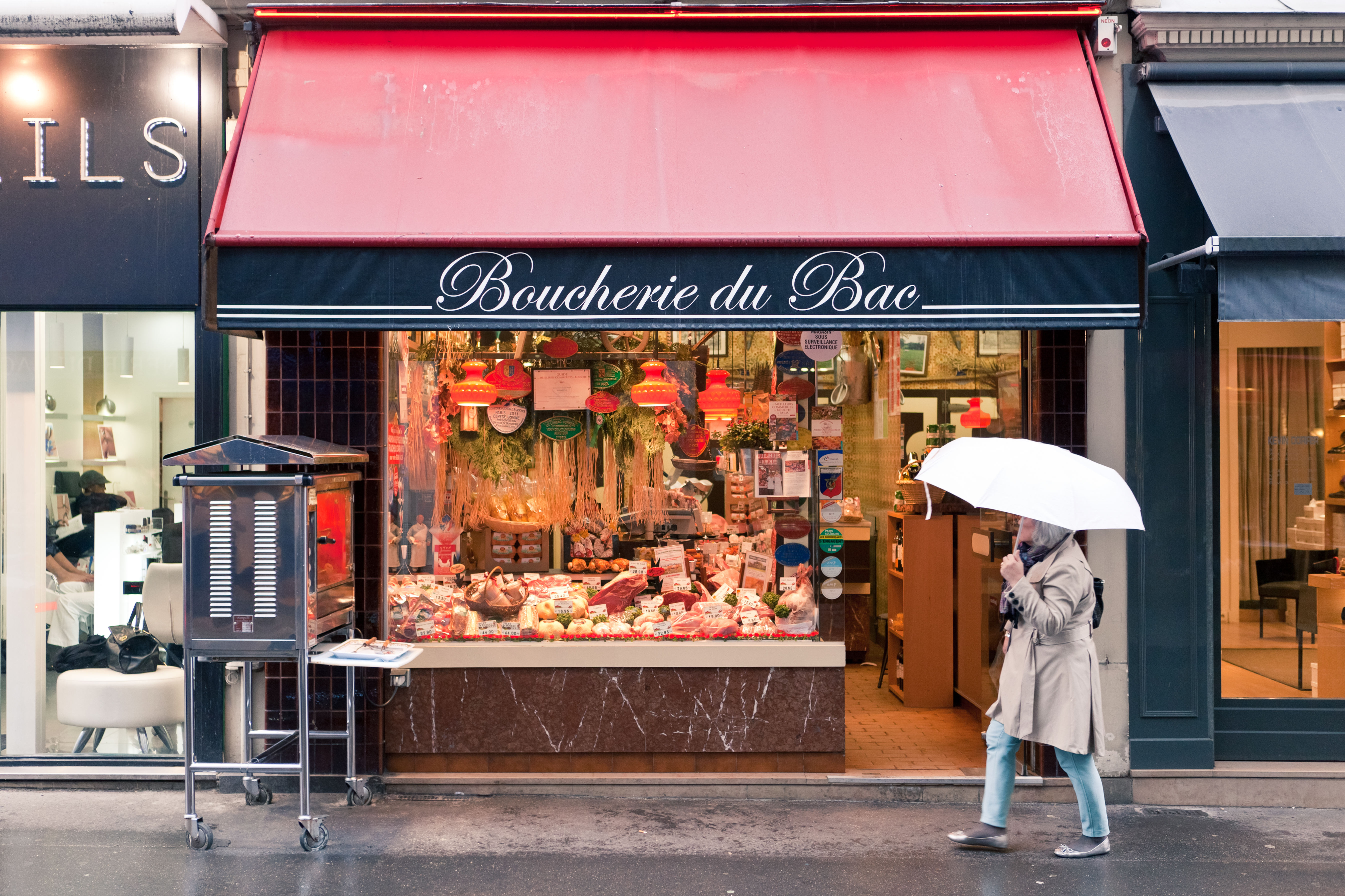 Boucherie du Bac, 82 Rue du Bac, 75007 Paris, France.